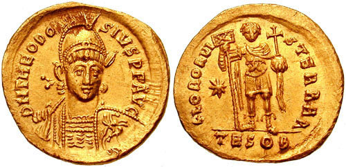 THEODOSIUS II. 408-450 AD. AV Solidus (21mm, 4.30 gm). Thessalonica mint. Struck 424-430 AD. D N THEODO-SIVS P F AVG, helmeted, diademed, and cuirassed bust facing slightly right, holding spear over shoulder and shield on arm. GLOR ORVI-S TERRAR, emperor standing facing, holding standard in right hand and globus cruciger in left; * in left field, TESOB. RIC X 362; Depeyrot 51/1. Good VF, obverse edge nick.